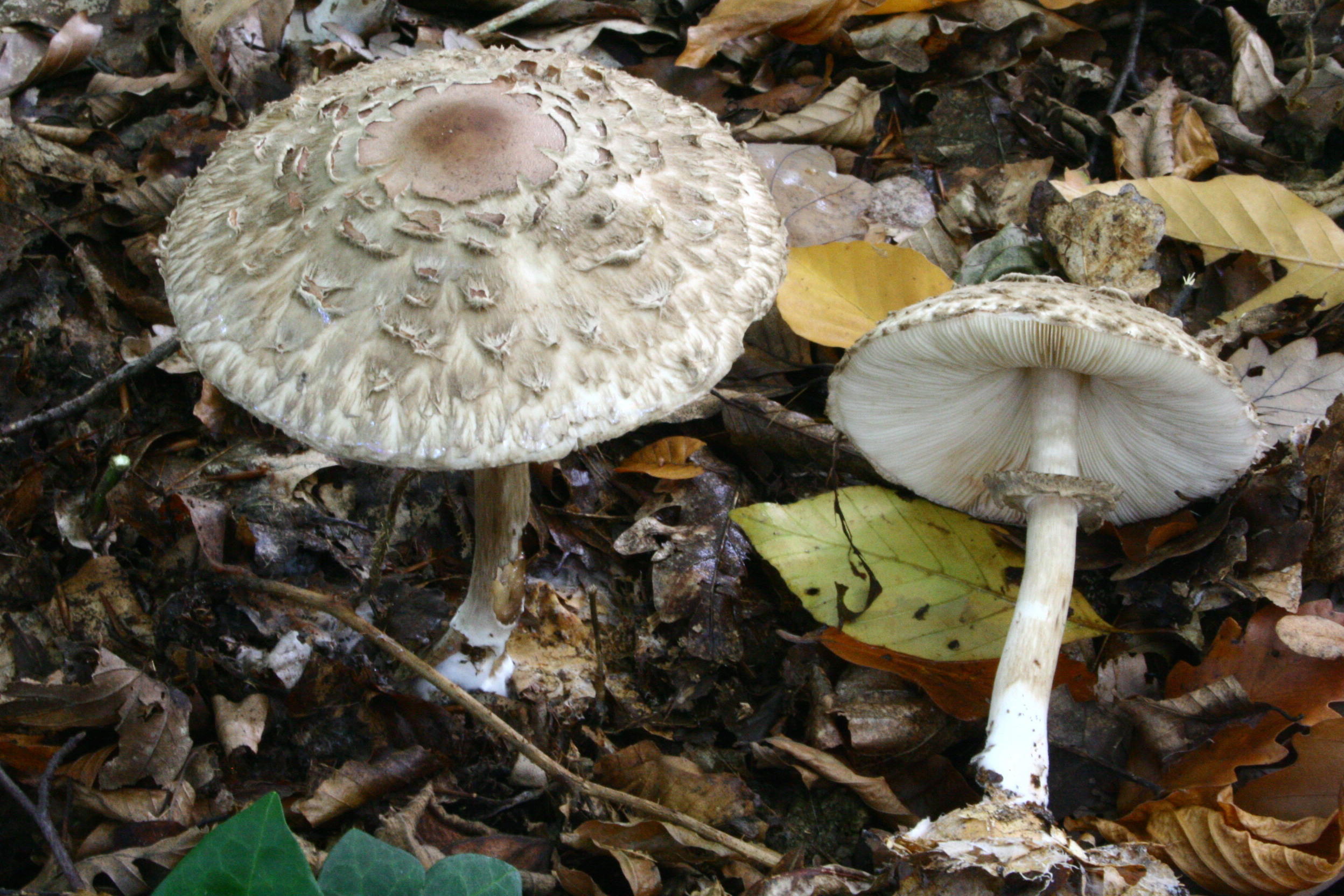 Chlorophyllum olivieri in a forest near Paris, France.